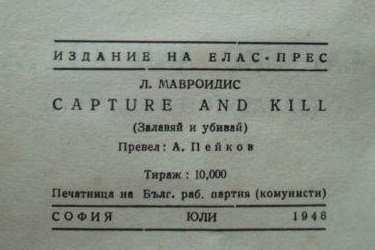 Capture and Kill